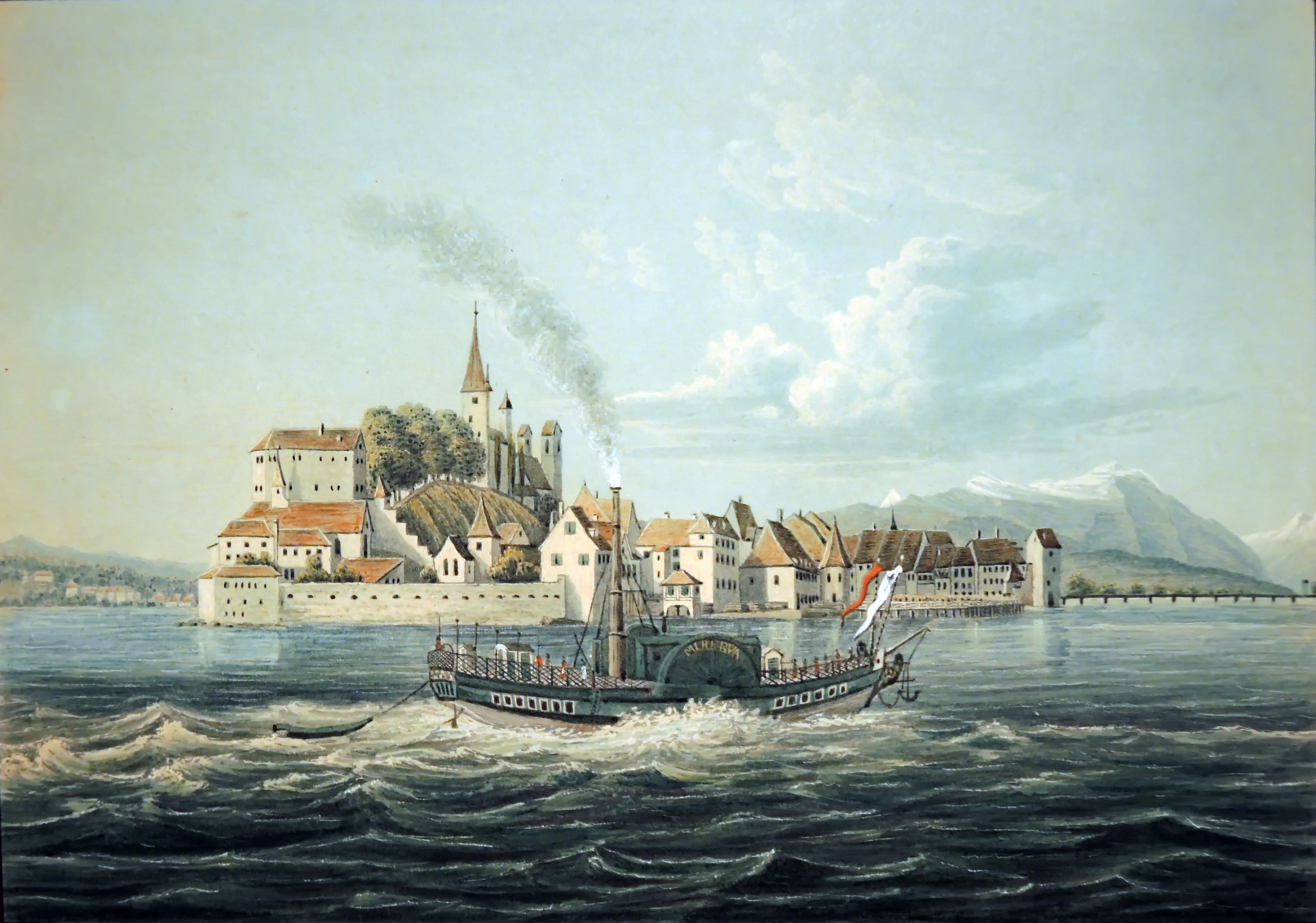 Collection of the Stadtmuseum in Rapperswil (Switzerland)